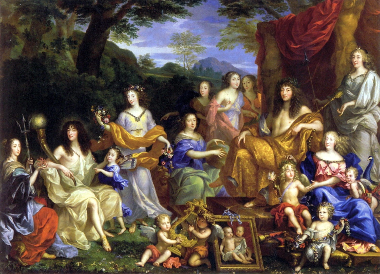 Characters from left to right: The Queen Henrietta Maria of France (1609); Philippe of France, Monsieur (1640); his daughter Marie Louise (1662); his wife Henrietta of England (1644); the queen Mother Anne of Austria; King Louis XIV ; their children, Louis (1661), Marie Thérèse, la Petite Madame (1667) and Philippe (1668); the queen Maria Theresa of Austria (1638) and Anne Marie Louise d'Orleans, la Grande Mademoiselle (1627).